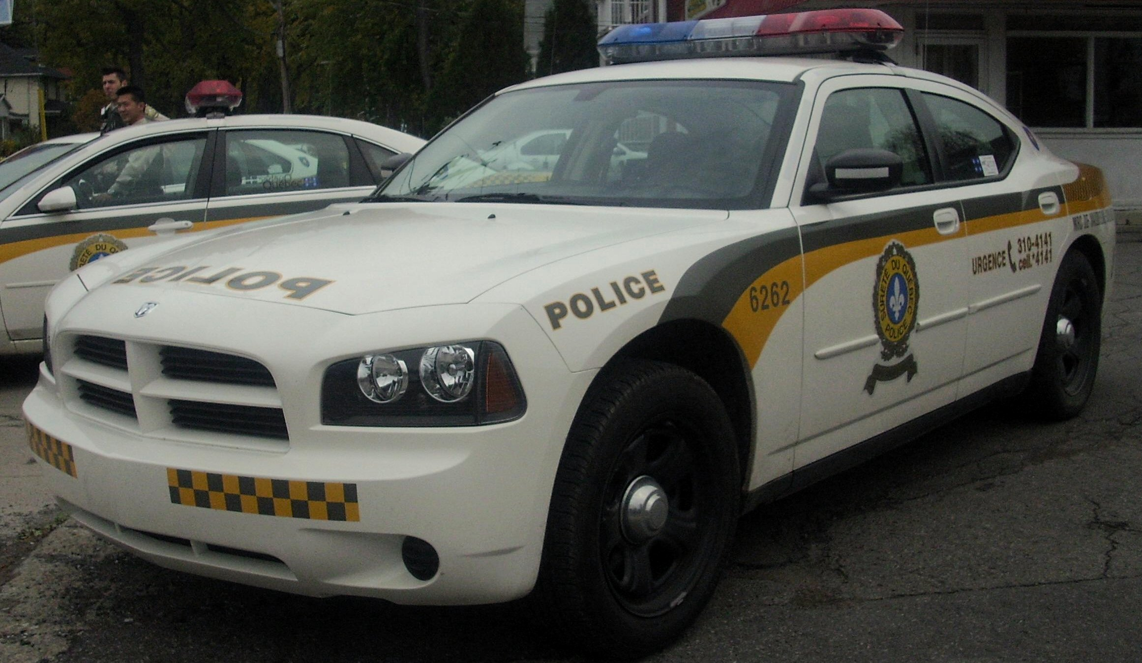 2006-present Dodge Charger photographed in Vaudreuil-Dorion, Quebec, Canada.